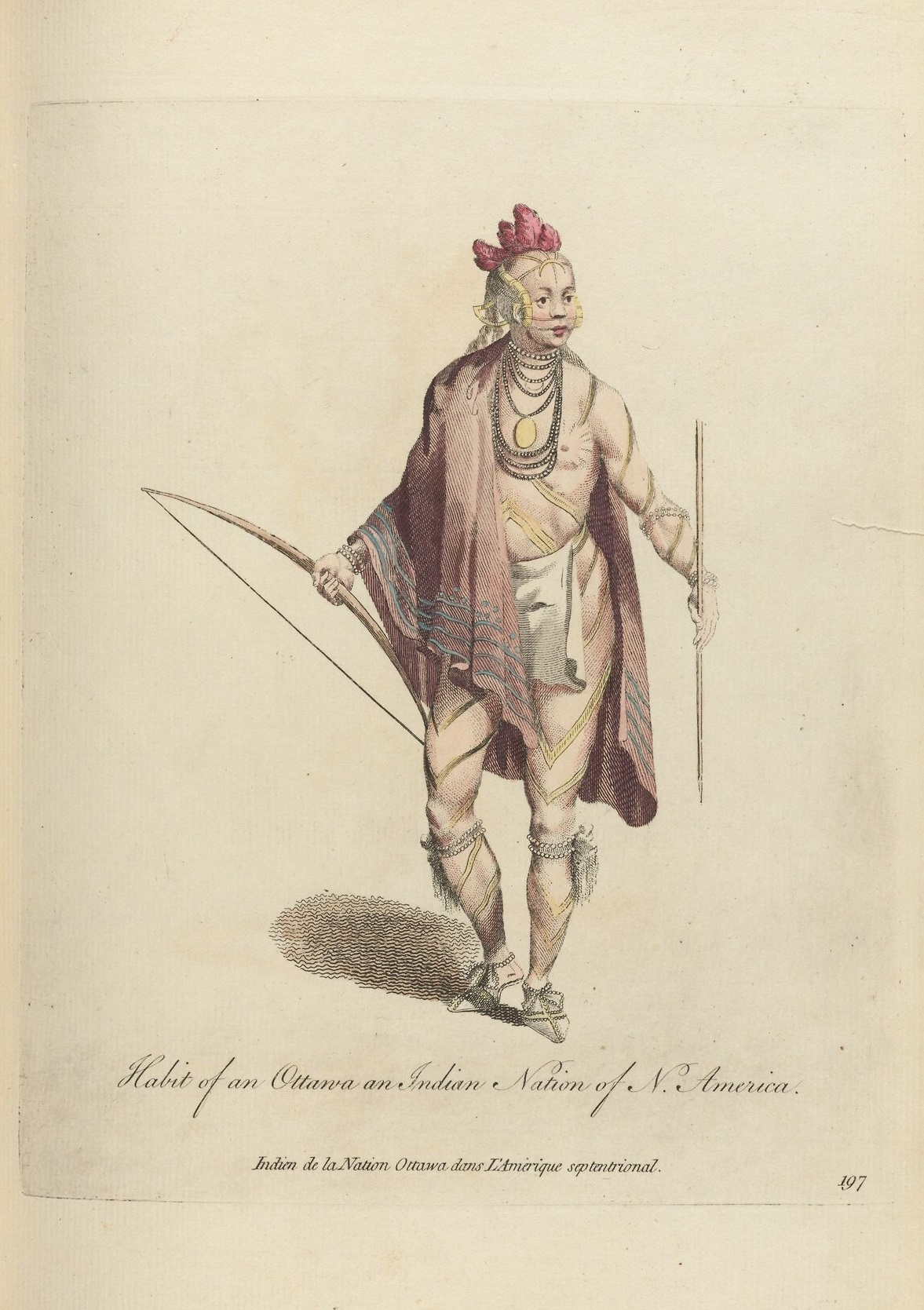 Engraving titled "Habit of an Ottawa an Indian Nation of N. America". From A collection of the dresses of different nations, antient and modern, particularly old English dresses, Vol 4: Plate 197. HEW 14.7.6, Houghton Library, Harvard University